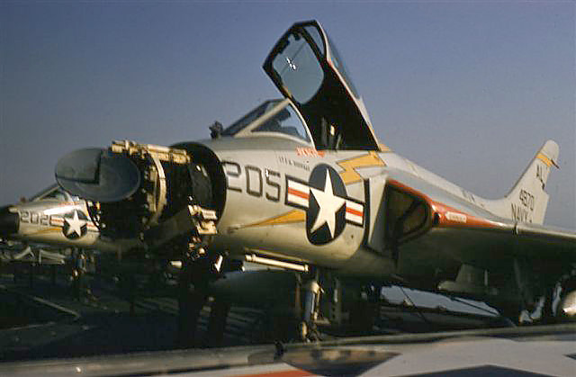 Maintenance on a APQ-50A radar of a Douglas F4D-1 Skyray fighter (BuNo 134870) of fighter squadron VF-74 Be-Devilers, Carrier Air Group 17 (CVG-17), on carrier USS Franklin D. Roosevelt (CVA-42) during that carrier's deployment to the Mediterranean between July 1957 and March 1958. CVG-17 was assigned the tailcode "AL" only during this deployment.